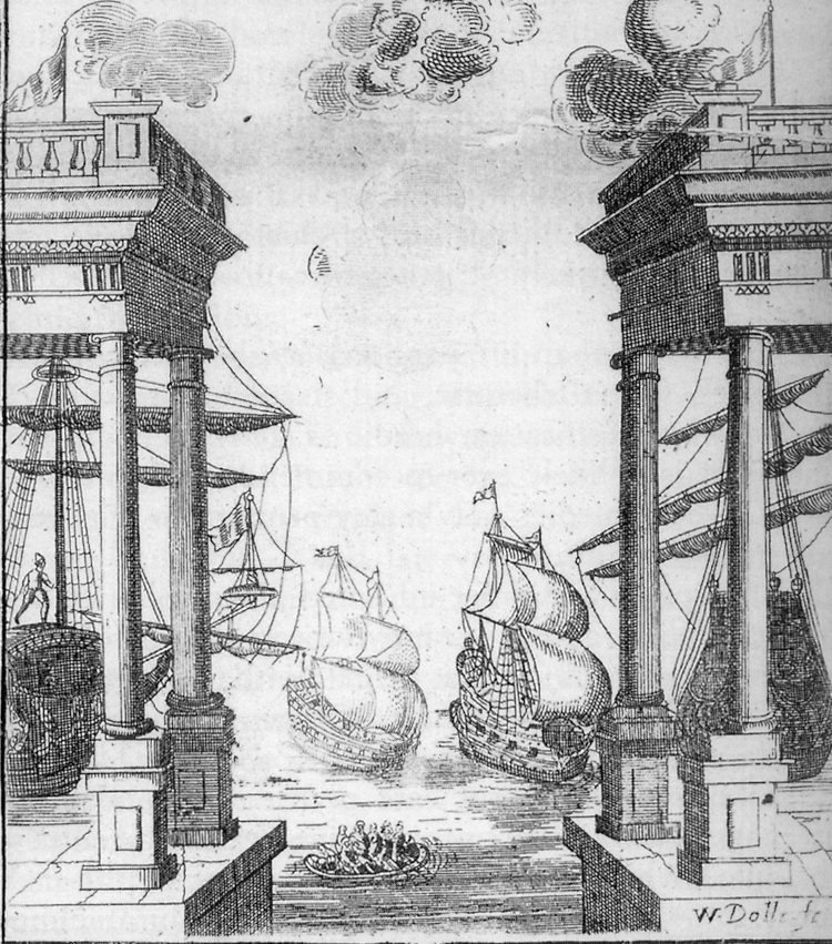 Detail from the illustrated backdrop to Elkannah Settle's The Empress of Morocco (1673) at the Duke's Theatre, Dorset Garden, London. Plate facing page 8: engraving signed by William Dolle.